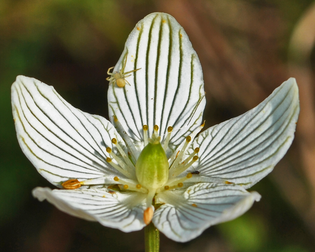 Muir Park State Natural Area, Marquette Co., WI